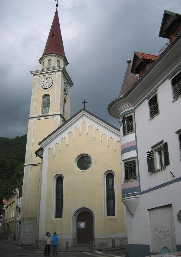 Tržič, Slovenia (church in the town center) photo:Ziga 12:06, 21 October 2006 (UTC)